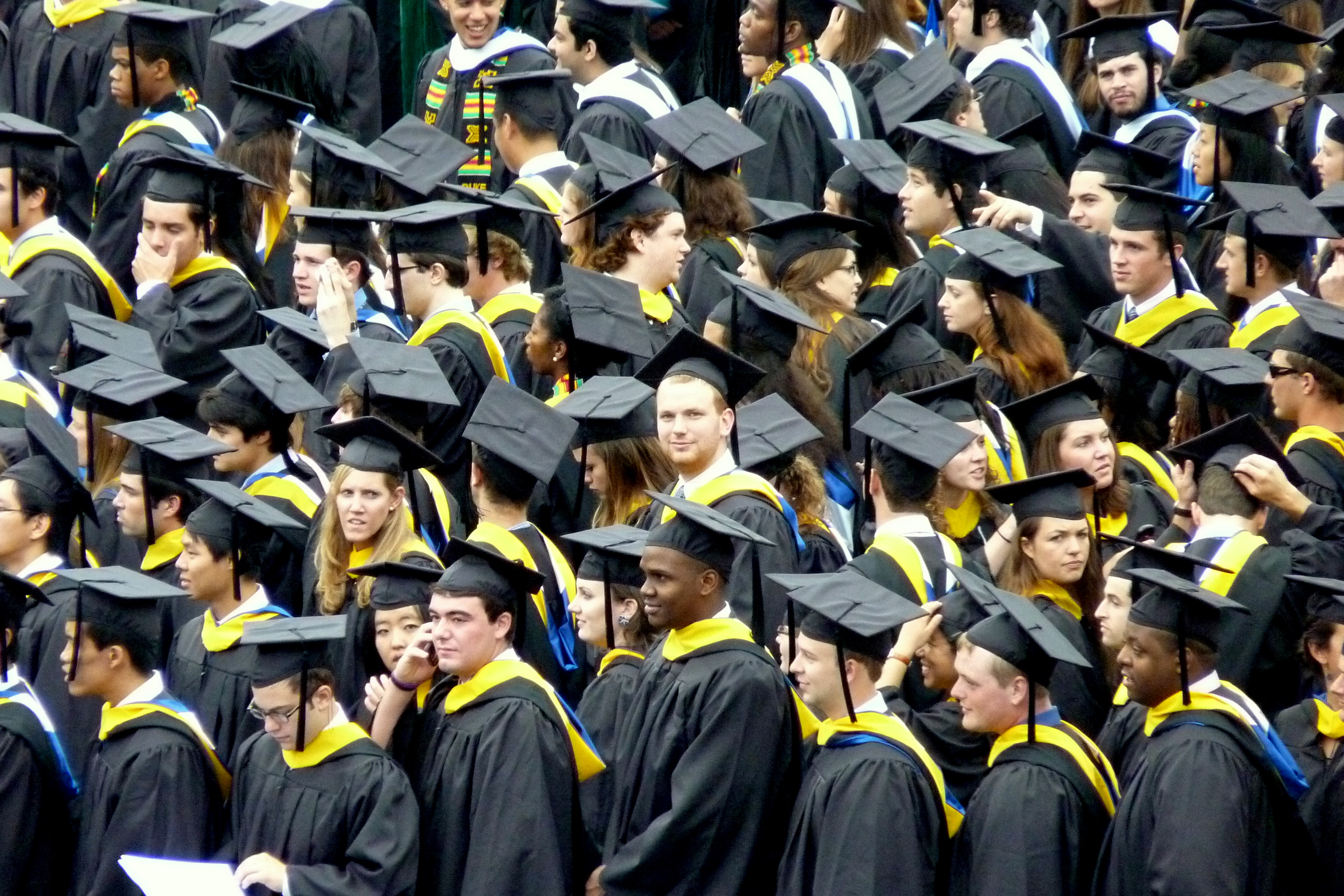 Duke University graduation, May 2011.